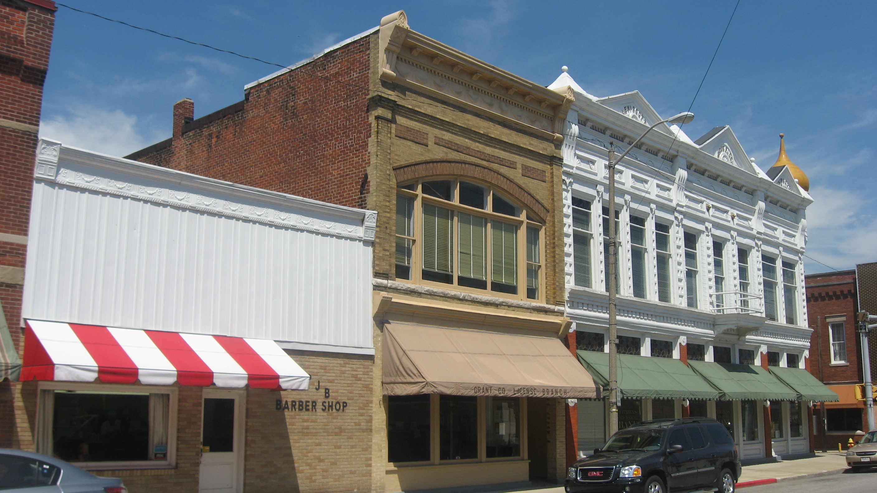 Buildings in the 100 block of S. Main Street in downtown Fairmount, Indiana, United States. From left to right, they are: 110 S. Main, built 1890 108 S. Main, built 1890 Bogue Block, 102 S. Main, built 1889 in Italianate style This block is part of the Fairmount Commercial Historic District, a historic district that is listed on the National Register of Historic Places.